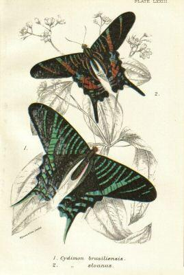 Antique lithograph Print of Cydimon sloanus (= Urania sloanus) and Cydimon brasiliensis (= Urania brasiliensis) published in 1897 for "A Handbook to the Order Lepidoptera" by W.F.Kirby (Lloyd's Natural History). Real size of printed area is 7"x 5" (18x13cm).